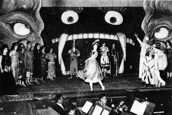 Asakusa Opera, performance of Jacques Offenbach's 1858 opera Orpheus in the Underworld (Japanese dancer Takagi (1891–1919) in the middle)